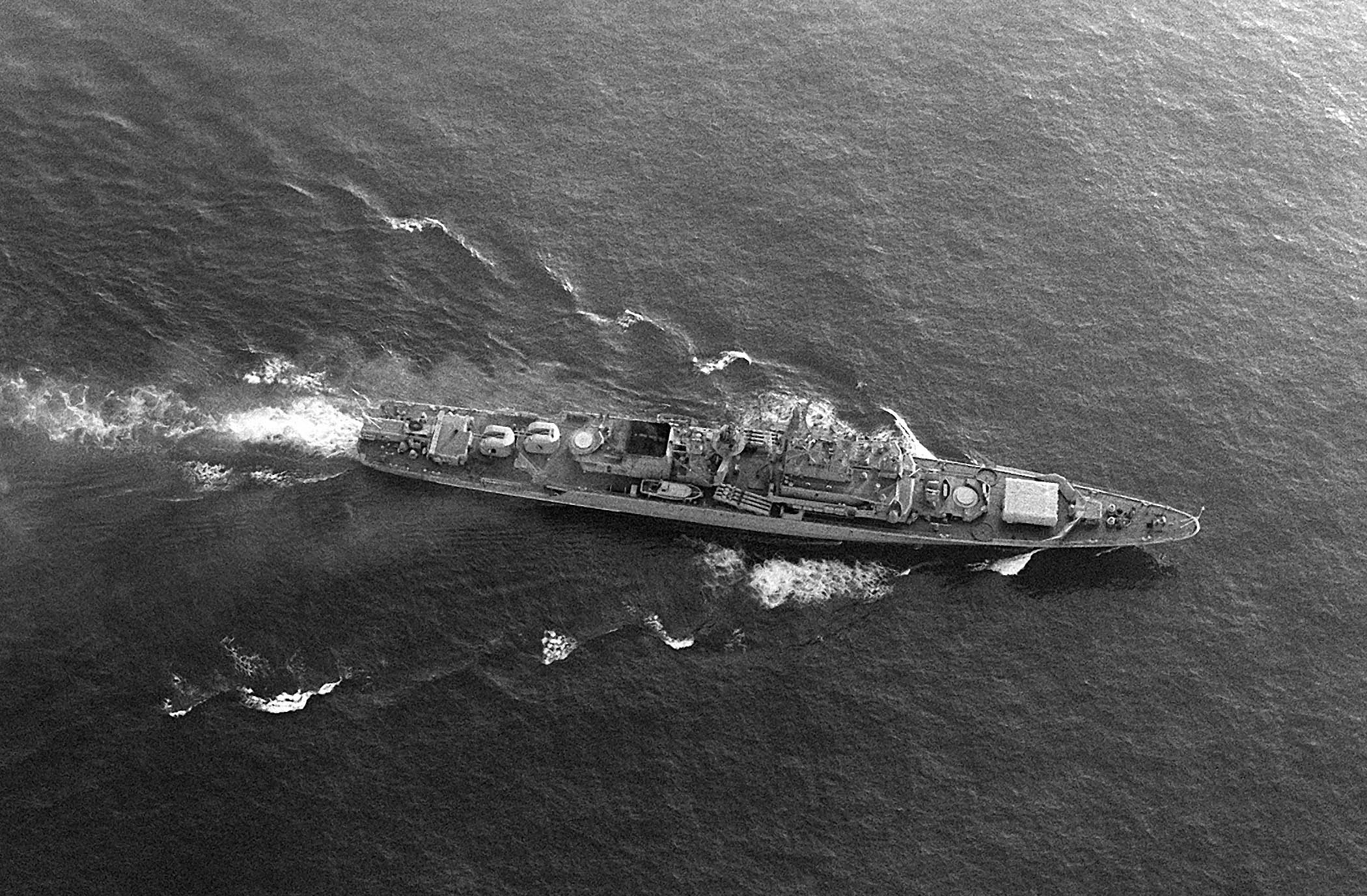 A starboard view of the Soviet Krivak I class guided missile frigate RAZUMNYY taken from a P-3 Orion aircraft 750 miles west of Midway Island. The frigate is operating with nine other Soviet ships and is moving in a northeasterly direction. This is the largest Soviet task force to enter Central Pacific waters.